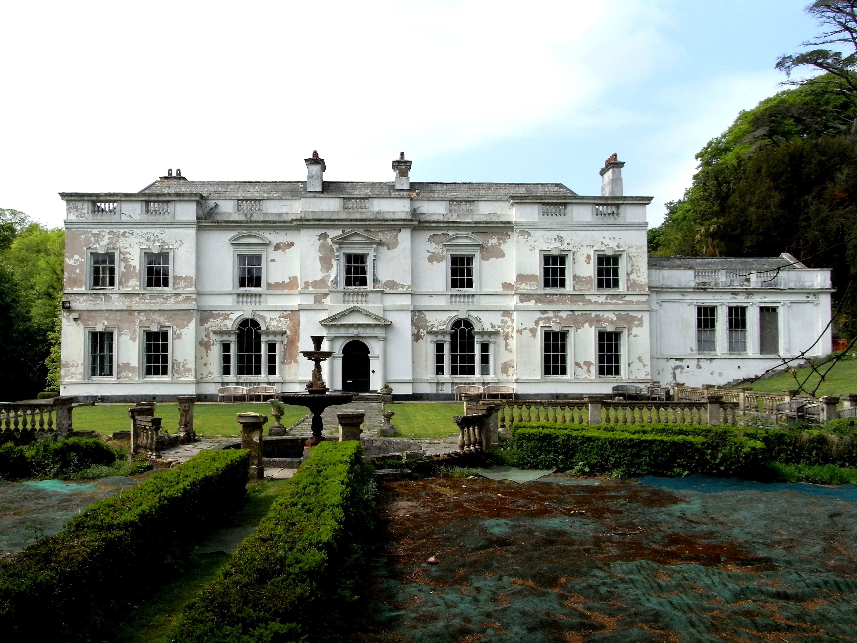 Lupton House, Brixham, Devon. South front, original entrance front. The wings were originally topped with Palladian gables. (Pevsner, Nikolaus & Cherry, Bridget, The Buildings of England: Devon, London, 2004, p.833)